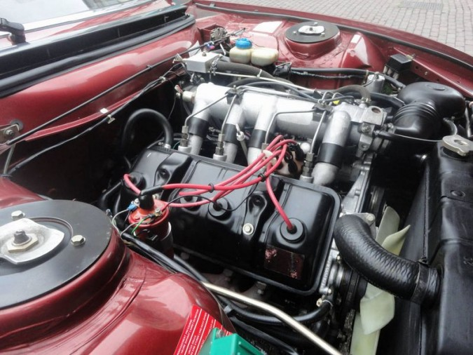 2 litre fuel injected Peugeot XN2 engine in a 1983 504 Cabriolet.